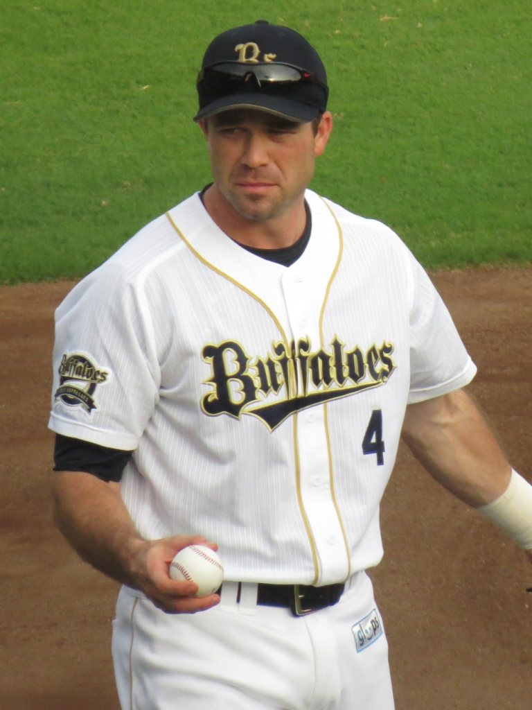 Vinny Rottino, outfielder of the Orix Buffaloes, at Kobe Sports Park Baseball Stadium.